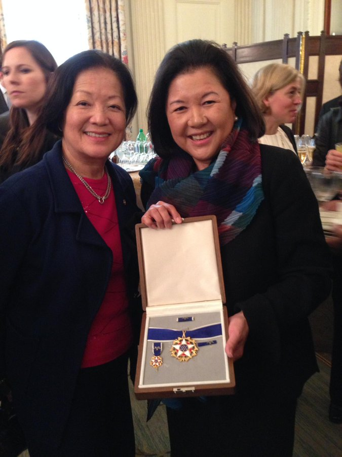 Privilege to watch Irene Hirano Inouye accept Presidential Medal of Freedom on behalf of her husband